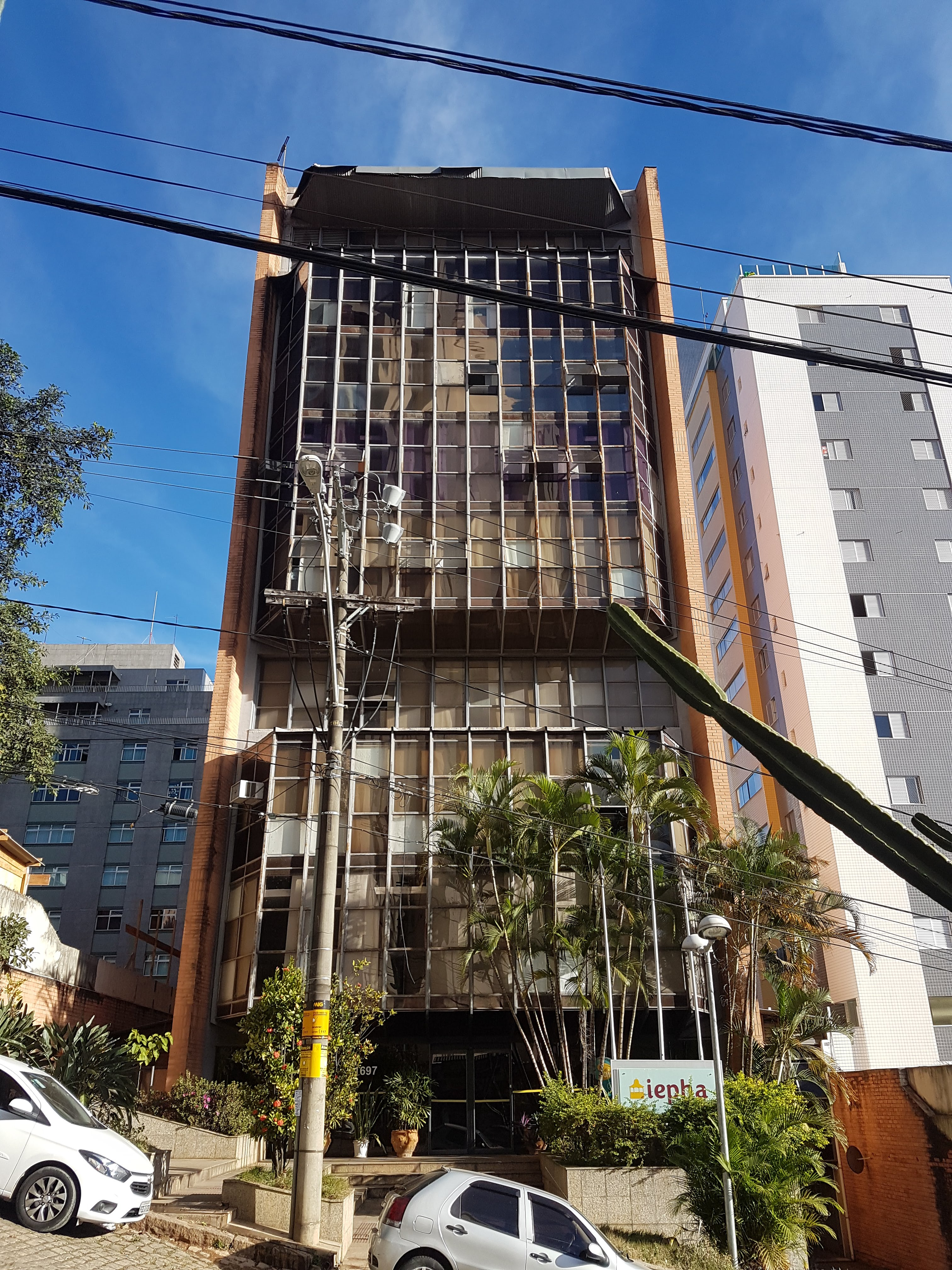 Facade of Instituto Estadual do Patrimônio Histórico e Artístico de Minas Gerais building